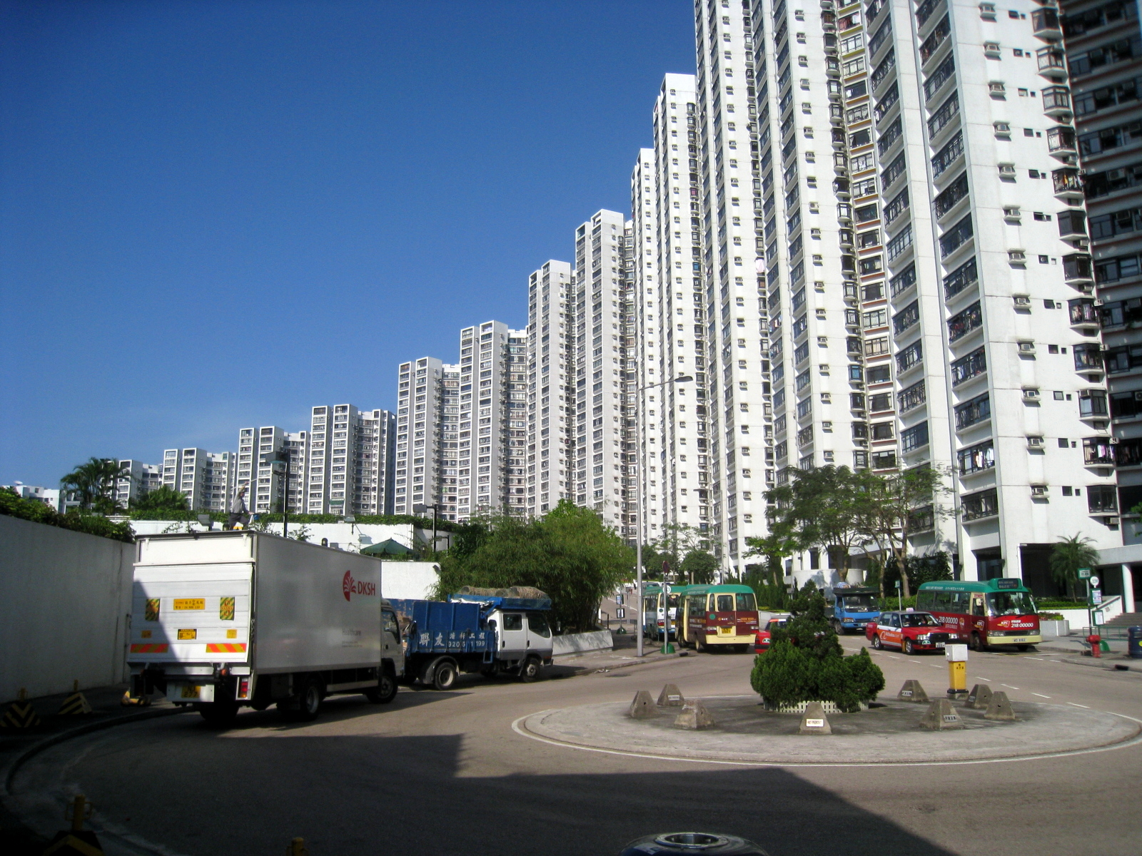 Kornhill Upper Residentional 康怡花園